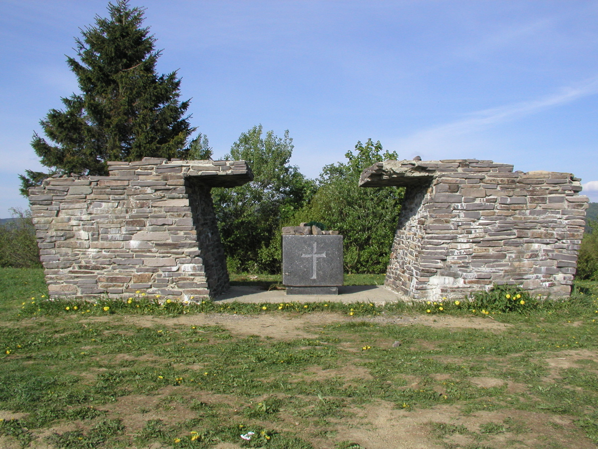 Veretskyi Pereval, the uncompleted Hungarian Conquest Memorial (Transcarpathian oblast, Ukraine)